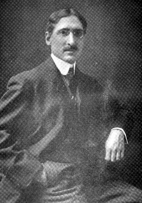 Edwin L. Sabin, American author (December 23, 1870-November 24, 1952), from the Iowa Alumnus, volume 4, issue 1, October 1906